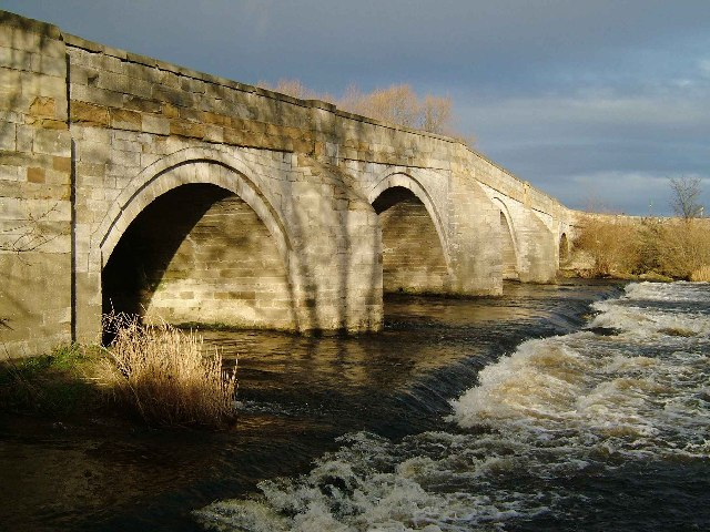 Bridge carrying the B6265 road over River Ure at Bridge Hewick, North Yorkshire